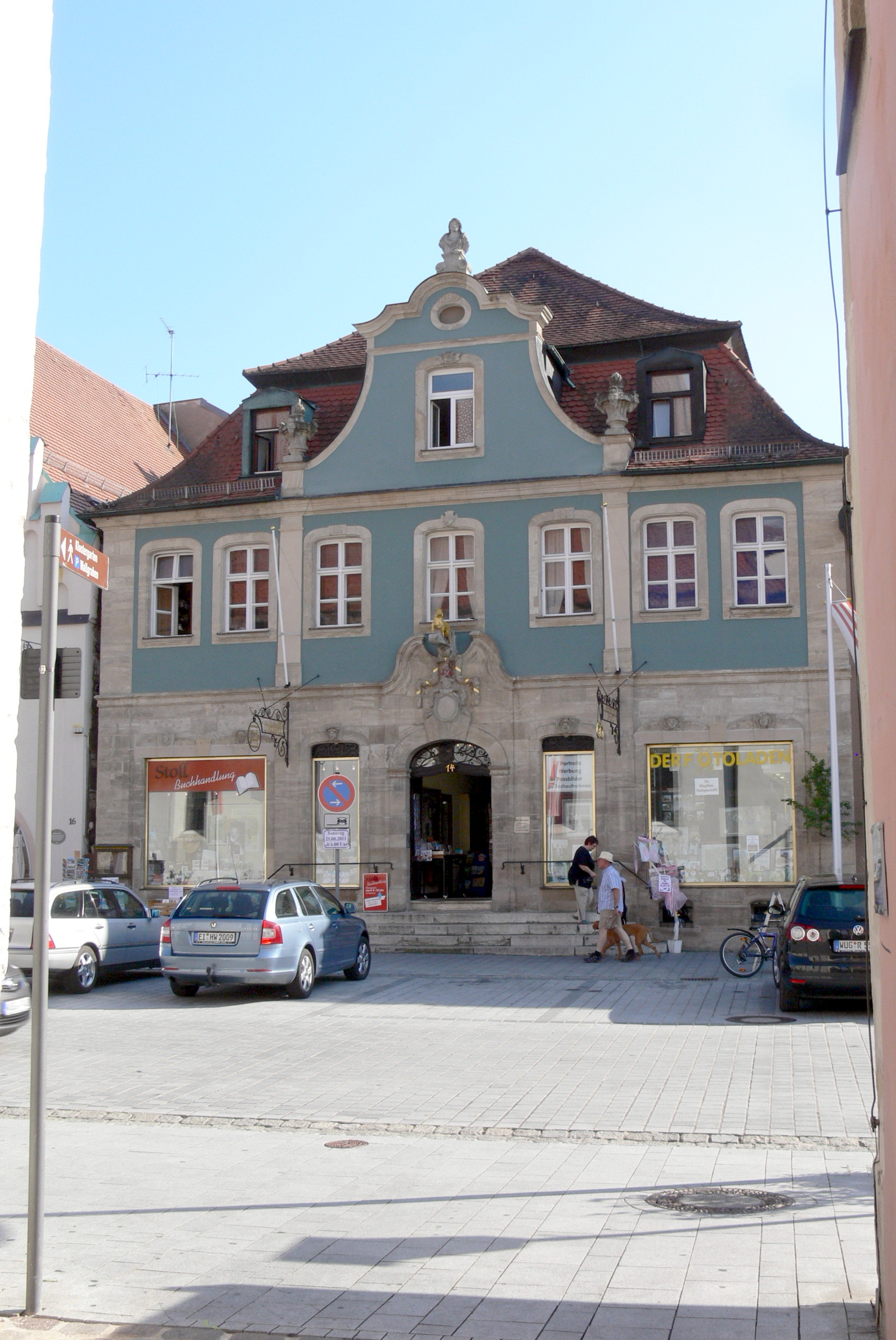 Weißenburg ( Bavaria ). Luitpold street Nr.14.